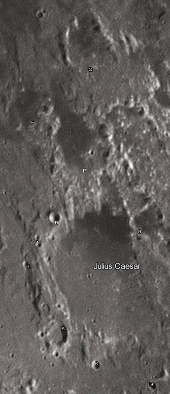 Julius Caesar lunar crater as seen from Earth with satellite craters labeled